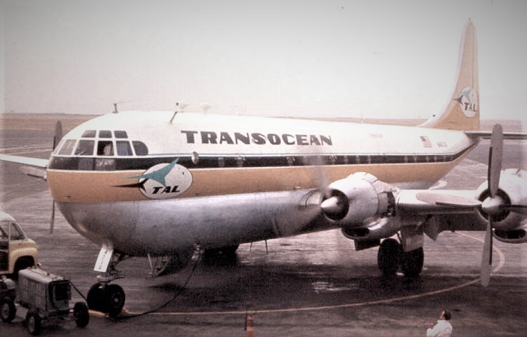 Boeing 377 of Transocean Airways at Oakland International Airport